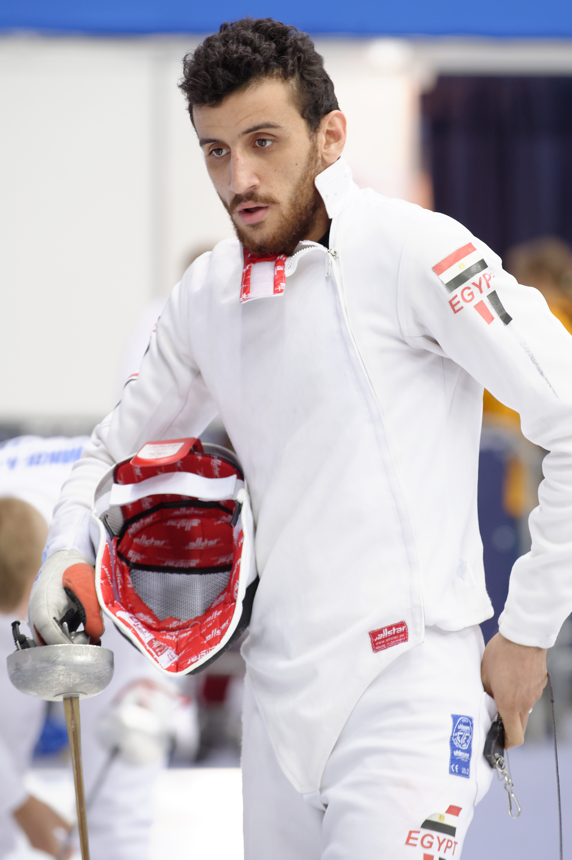 Egypt's Ayman Fayez (men's épée) at the 2015 World Fencing Championships on 14 July 2014 at the Olympic Stadium in Moscow.